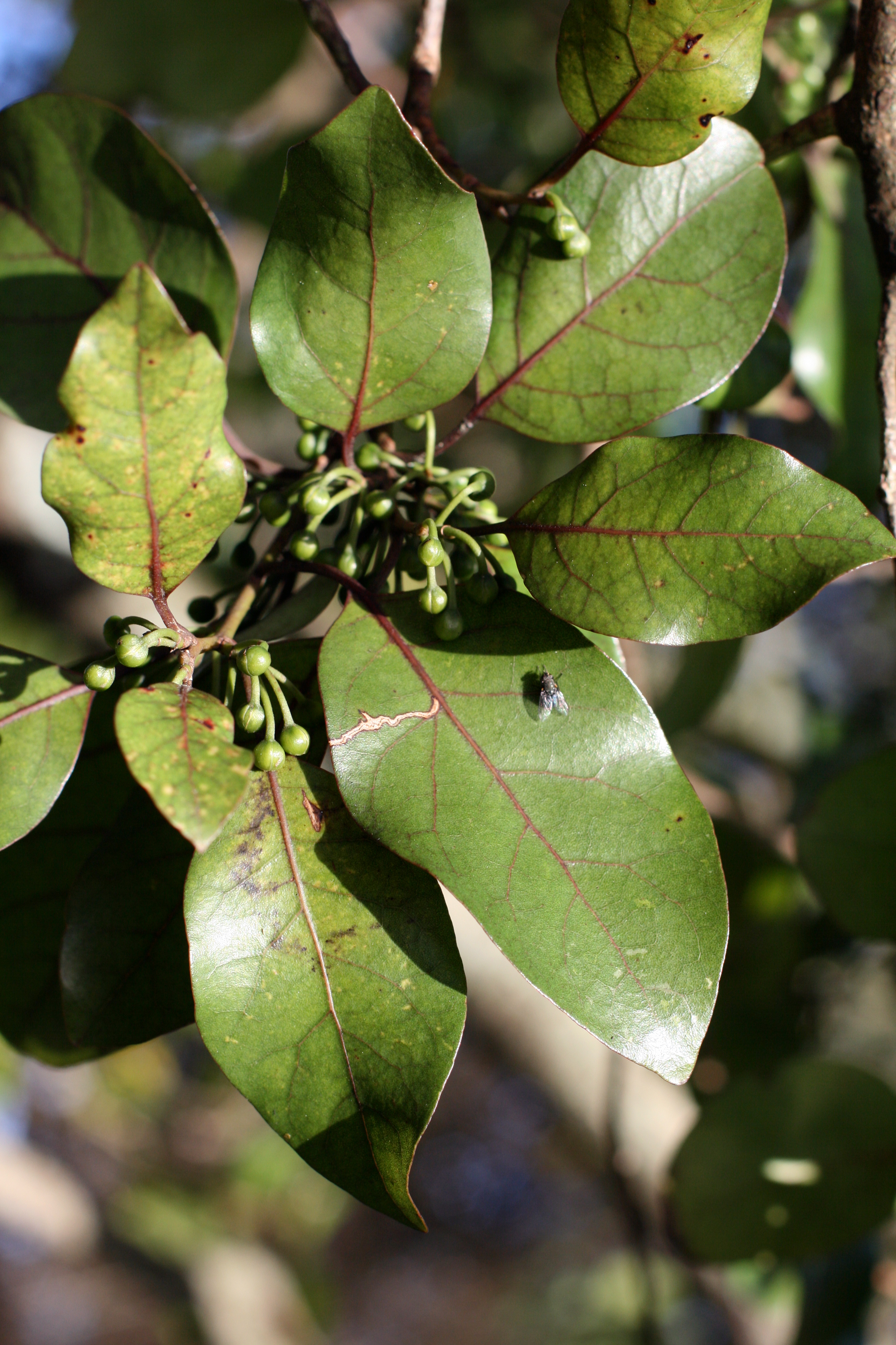 foliage of Mangeao tree, Litsea calicaris, Auckland, New Zealand. Young flowerbuds appear from the axils.